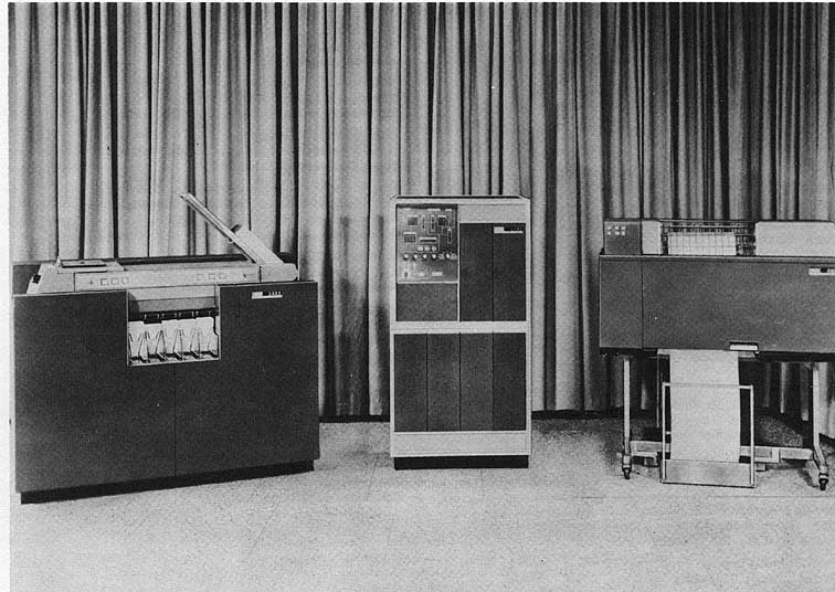 Photo of Basic IBM 1401 system from BRL 1961. "A Third Survey of Domestic Electronic Digital Computing Systems" Report No. 1115, March 1961 by Martin H. Weik, published by Ballistic Research Laboratories, Aberdeen Proving Ground, Maryland From left to right. IBM 1402 Card Read Punch, Model 1 - $24,800 IBM 1401 Processing Unit, Model A-1 - $70,500 IBM 1403 Printer, Model 1 - $30,300 Total Price $125,600